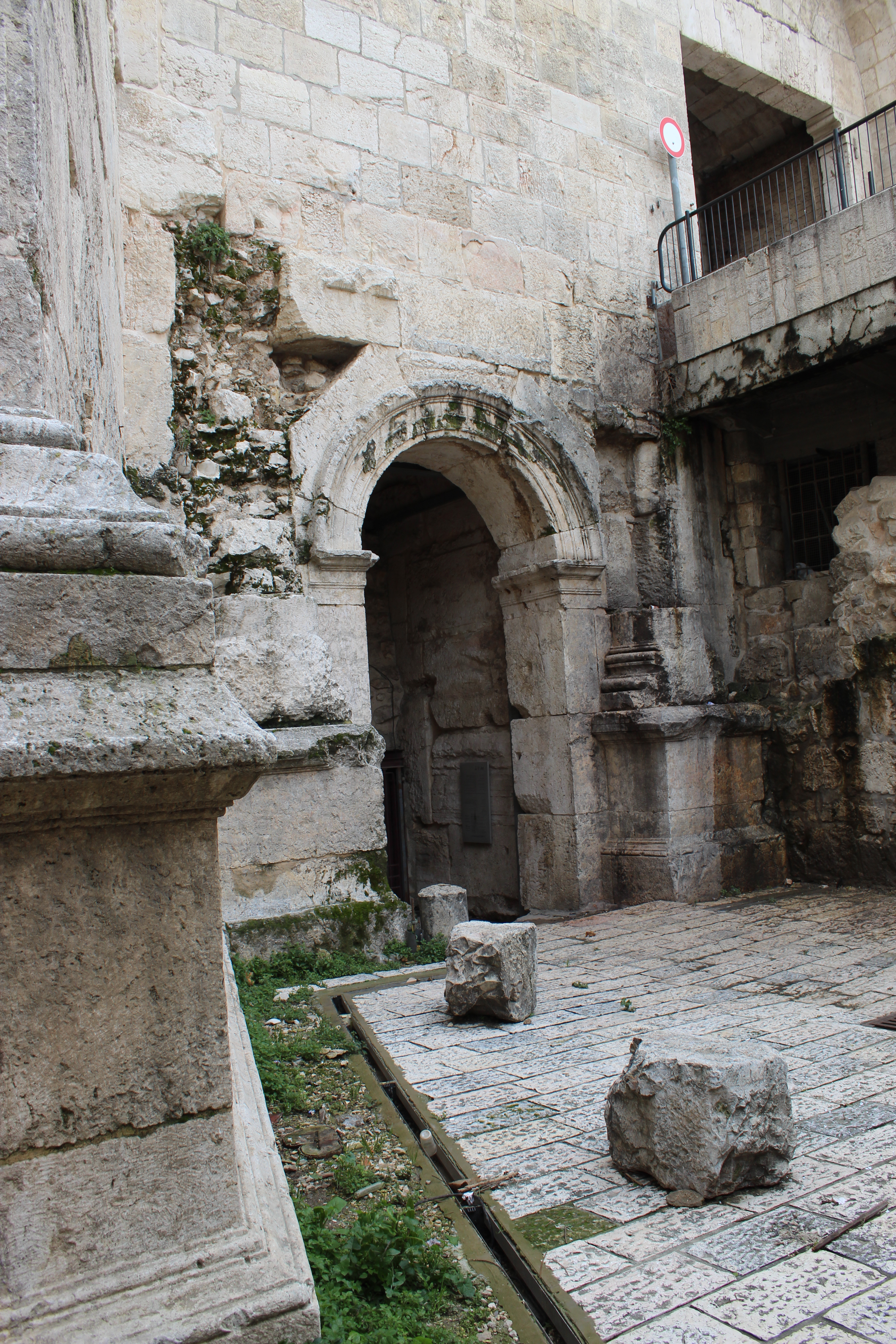 Old Roman Gate beneath the Damascus Gate in Jerusalem